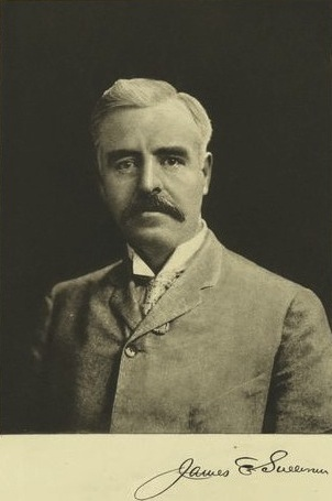 James E. Sullivan, founder of the Amateur Athletic Union, on menu of testimonial dinner at New York Athletic Club, January 1909. Image courtesy of the New York Public Library .